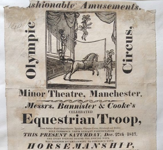 Fashionable Amusements Bannister and Cooke's Olympic circus and Equestrian troupe